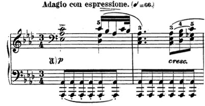 Incipit of the 3th movement from the Piano Sonata No. 13 (Beethoven) Op. 27, No. 1. in E-flat major (Quasi una fantasia).